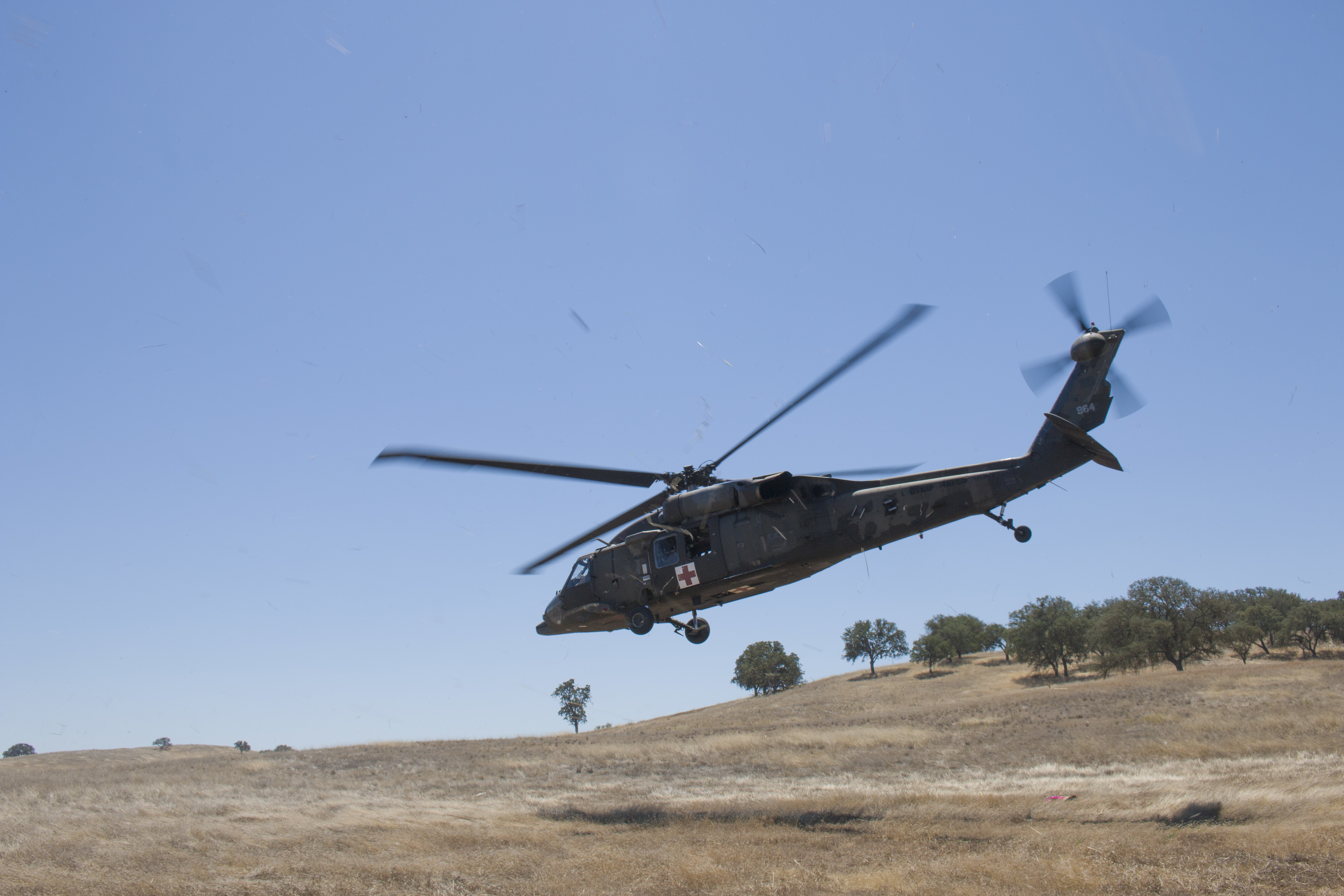 California Army National Guard Soldiers from Headquarters and Headquarters Company, 40th Combat Aviation Brigade, ran a convoy exercise at Camp Roberts, Calif., Aug. 24. The convoy was supported by AH-64 Apache helicopters from 1st Battalion, 211th Aviation Regiment, a Utah Army National Guard unit attached to the 40th CAB. The convoy was hit by a simulated gunfire and improvised explosive device attack. The simulated casualties were treated by medics on scene and evacuated by a medevac helicopter from 1st Battalion, 140th Aviation Regiment. The 40th CAB was preparing for their scheduled deployment to the Middle East later this year. (U.S. Army National Guard Photo/Spc. Ilithya Medley/Released) Unit: 40th Combat Aviation Brigade